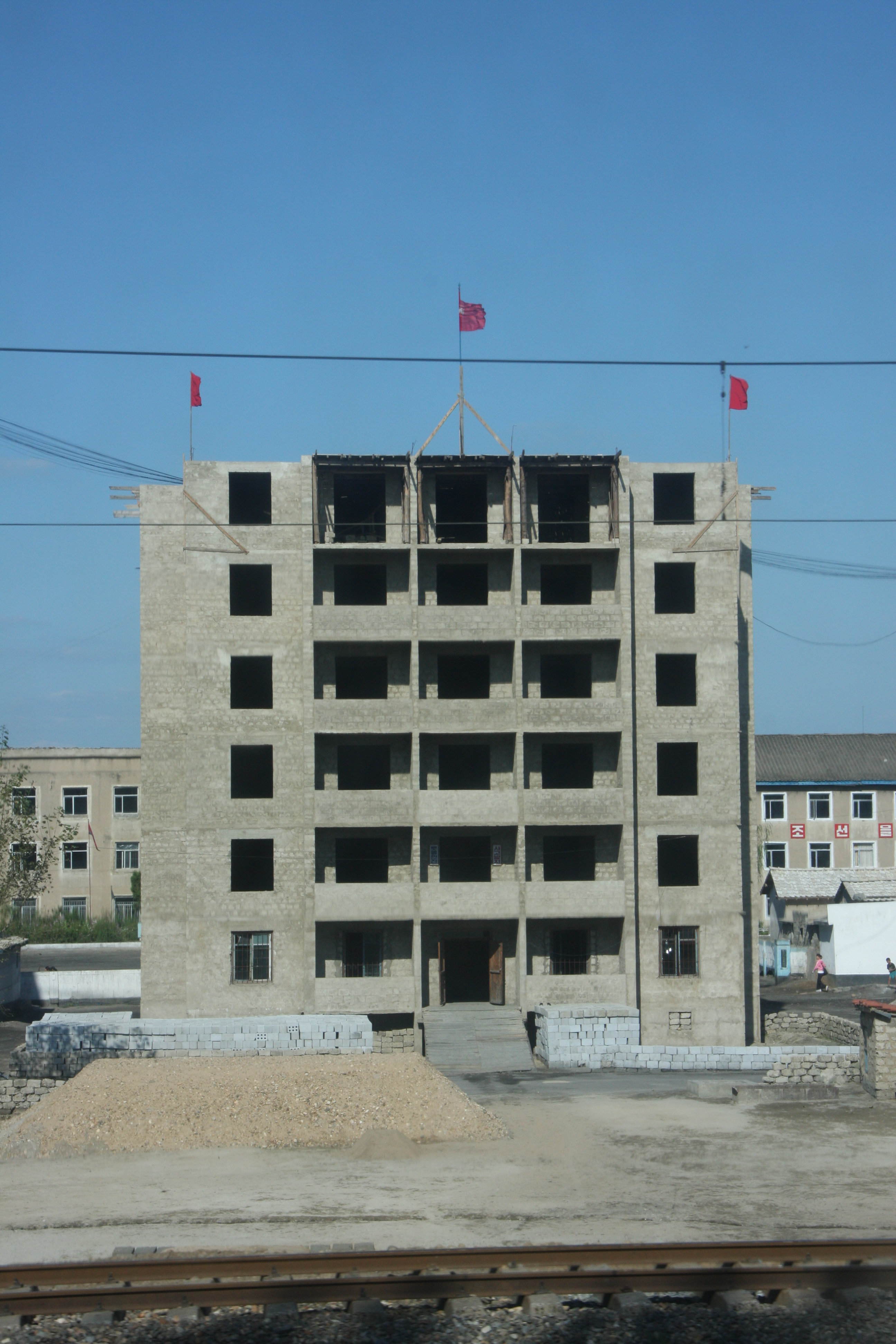 Unfinished building in North Korea.